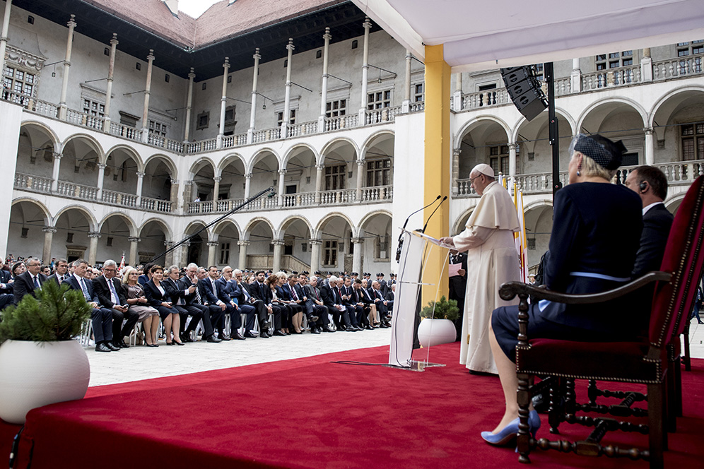 27.07.2016, Kraków | Światowe Dni Młodzieży: premier Szydło przywitała papieża Franciszka oraz spotkała się z pielgrzymami. fot. P.Tracz/KPRM